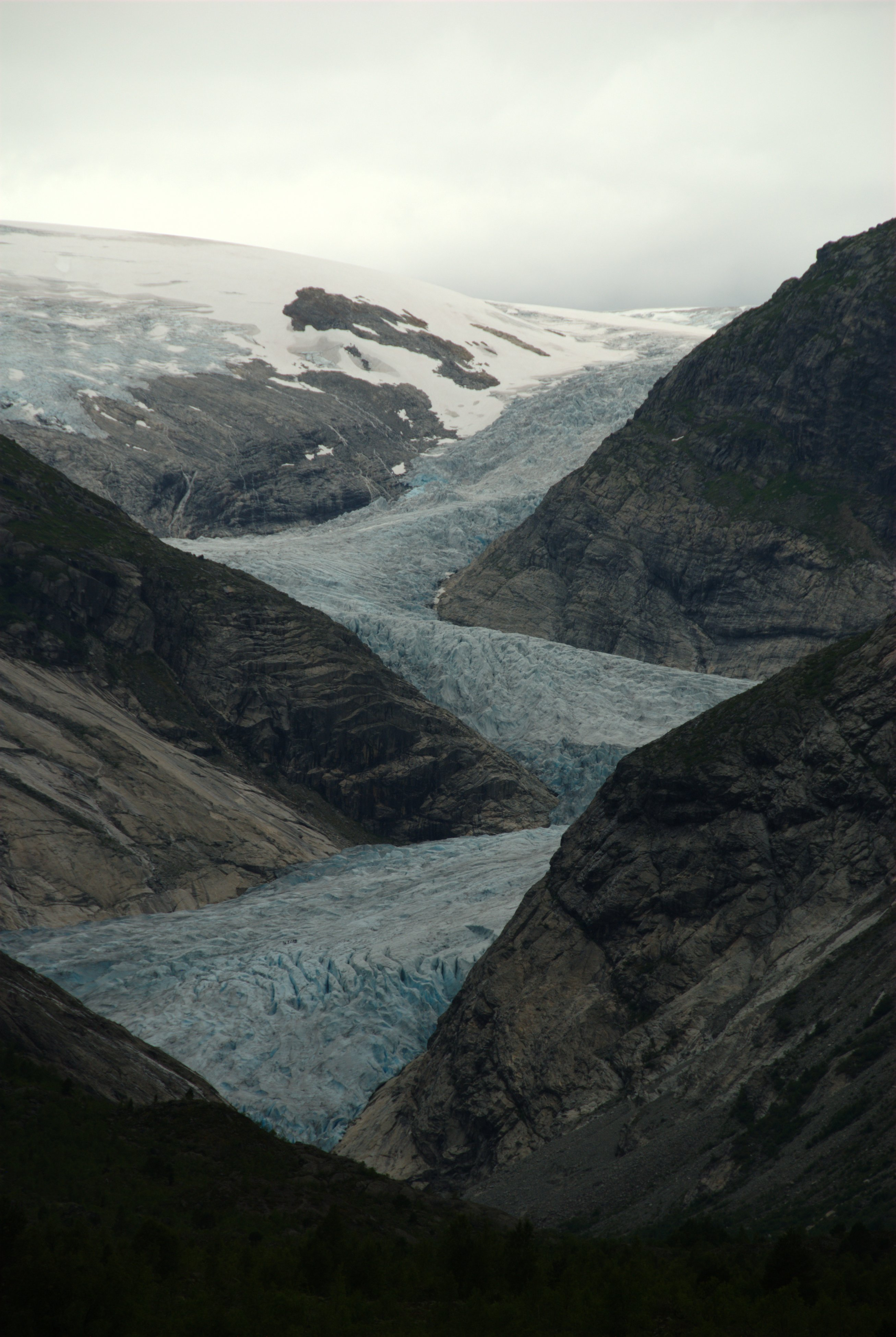 Nigardsbreen, part of the Jostedalsbreen.